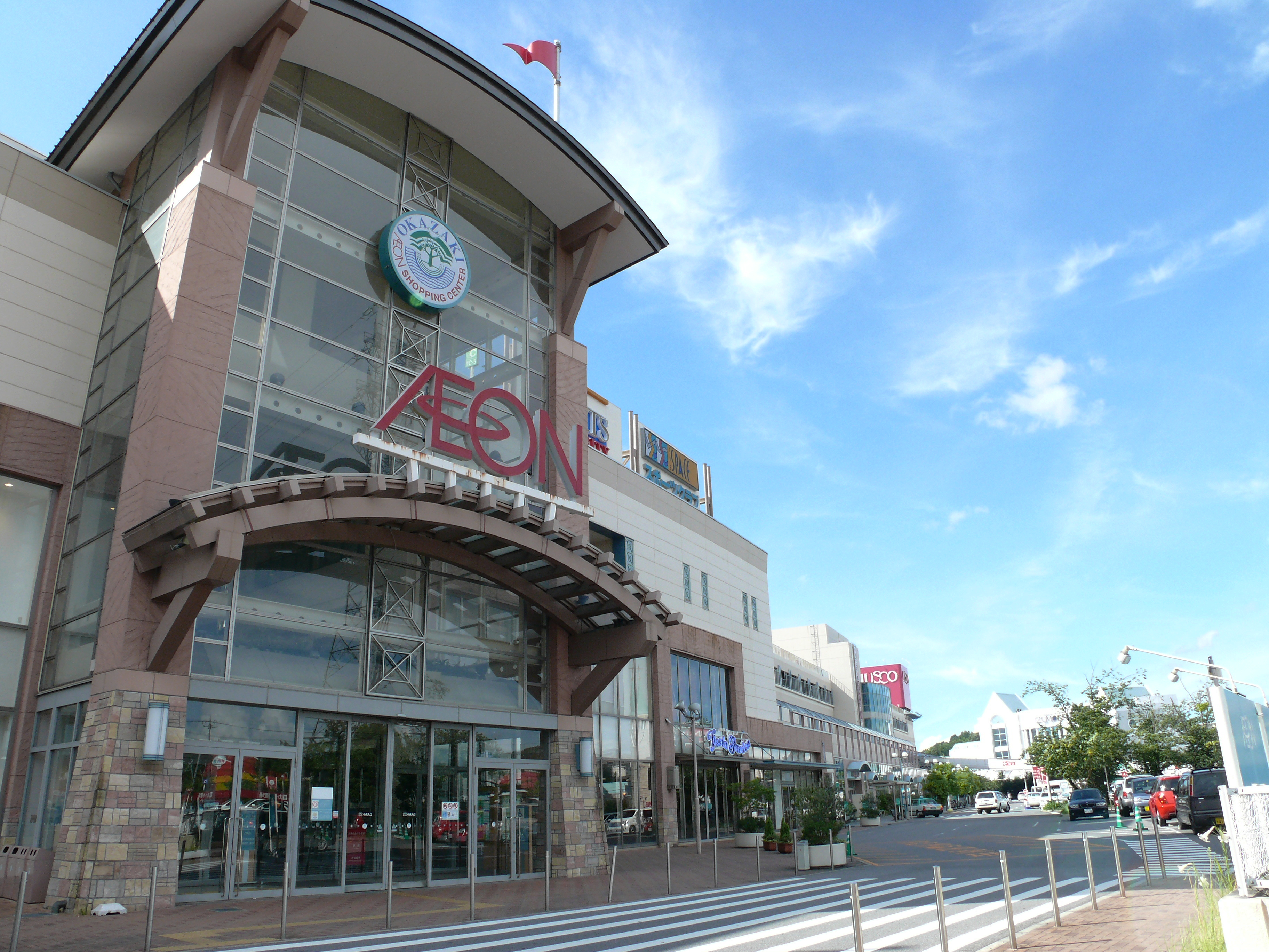 AEON Okazaki Shopping Center.